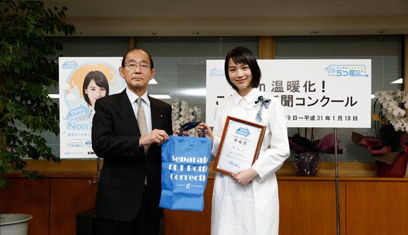 Non, President of the Non Inc., received the Letter of Appointment as the Goodwill Ambassador for the Energy Saving Home Appliances from Yoshiaki Harada, Minister of the Environment, at the Central Government Building No.5 in Chiyoda Ward, Tōkyō Metropolis on November 19, 2018.